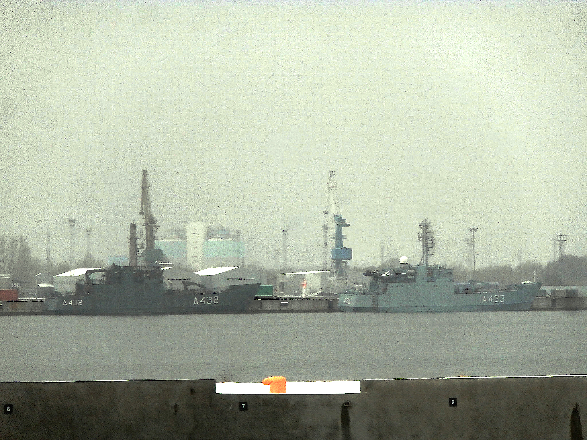 A432 Tasuja and A433 Wambola at quay 6 in Miinisadam, Tallinn 5 November 2016